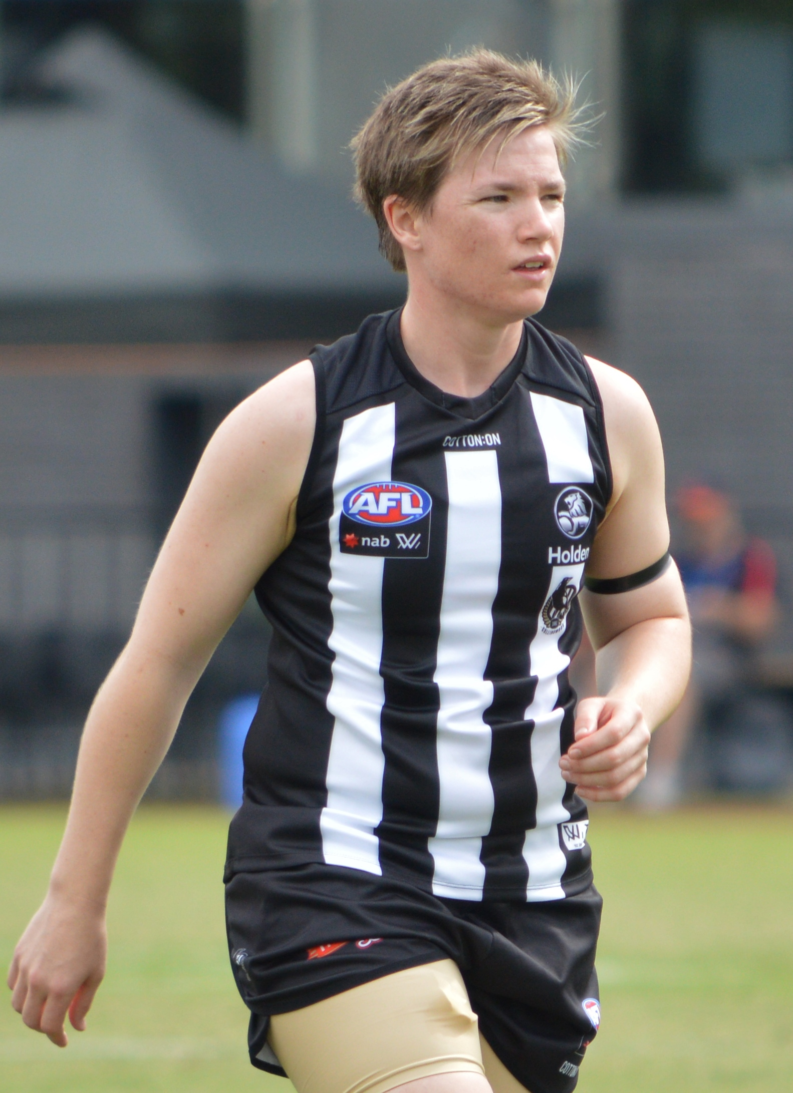 Jess Duffin during the round 3, 2018, AFL Women's match between Collingwood and Greater Western Sydney